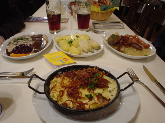 14 April 2006 German food is a teeeeeny bit heavy. Also, even the asparagus lacks greeness.